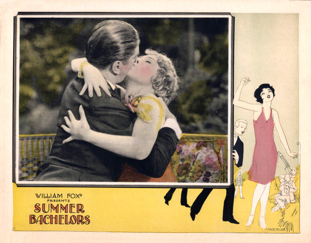 Lobby card for the 1926 film Summer Bachelors. There are no copyright marks on the item. At bottom right is Made in USA.